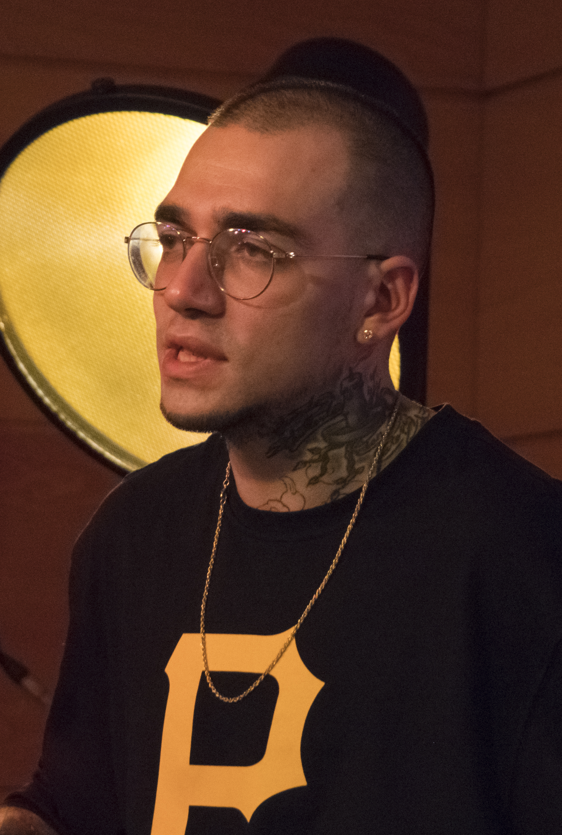 Ezhel talking to students at Boğaziçi University in Istanbul